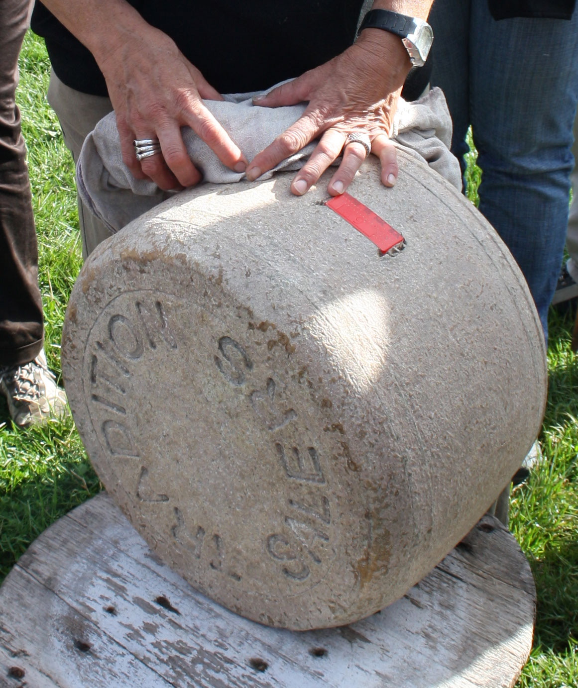 Authentic traditional Salers cheese, France